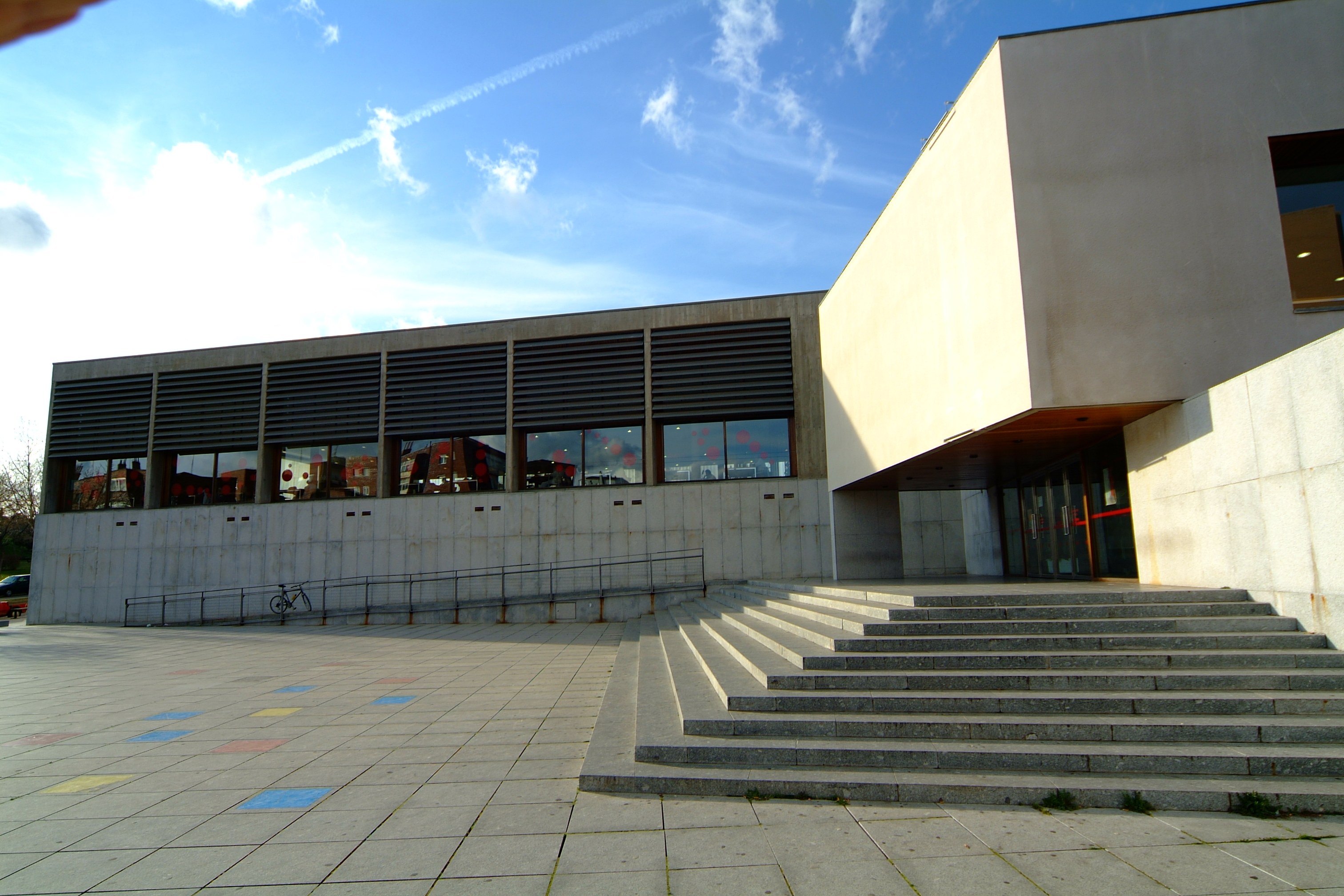 Biblioteca Municipal Torrente Ballester